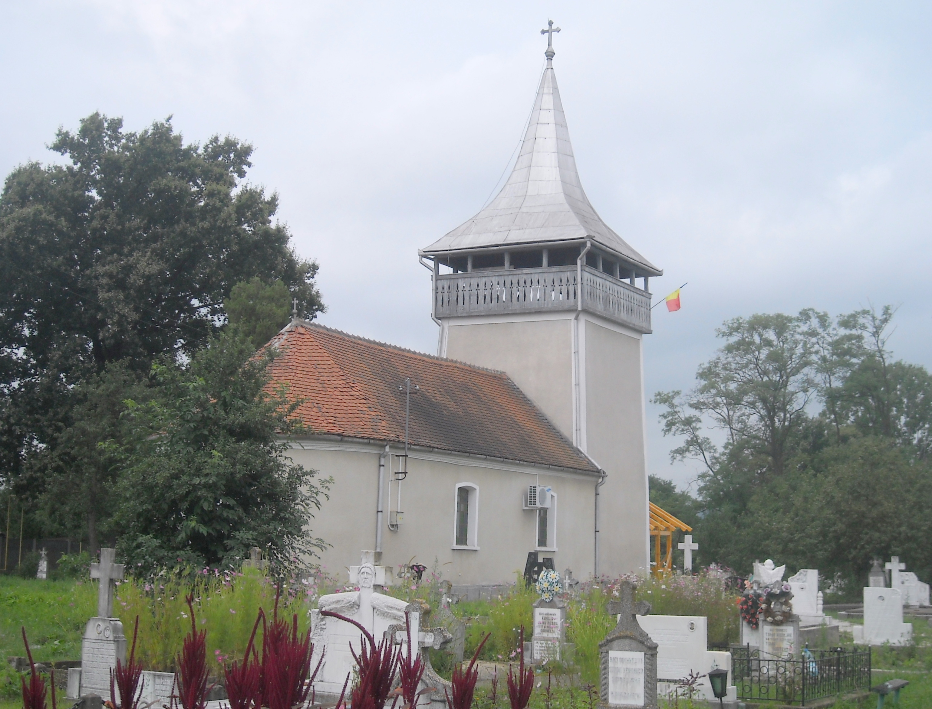 The orthodox church in Băcia, Hunedoara county, Romania